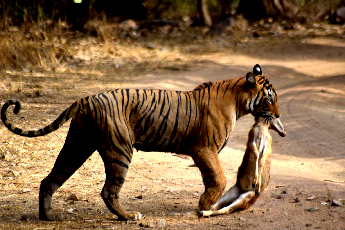 This Image was clicked by me at Ranthambhore National Park,Rajasthan,India.The tigress is holding a deer in its mouth